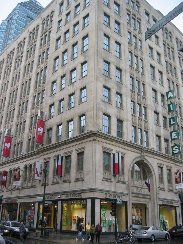 The former Eaton's department store in downtown Montreal, Canada, now serving as a retail and office complex known as Complexe Les Ailes